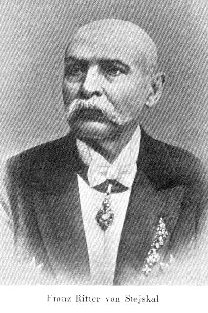 Portrait photos of Franz von Krauß, Franz von Stejskal, Johann von Habrda and Karl von Brzesowsky, chief executives of the I.R. Police in Vienna between 1885 and 1914, printed on p. 38 of the source mentioned 1885.xx.xx. Quelle Zentralinspektorat der Bundessicherheitswache: Sechzig Jahre Wiener Sicherheitswache; Selbstverlag der Bundespolizeidirektion Wien, Wien 1929